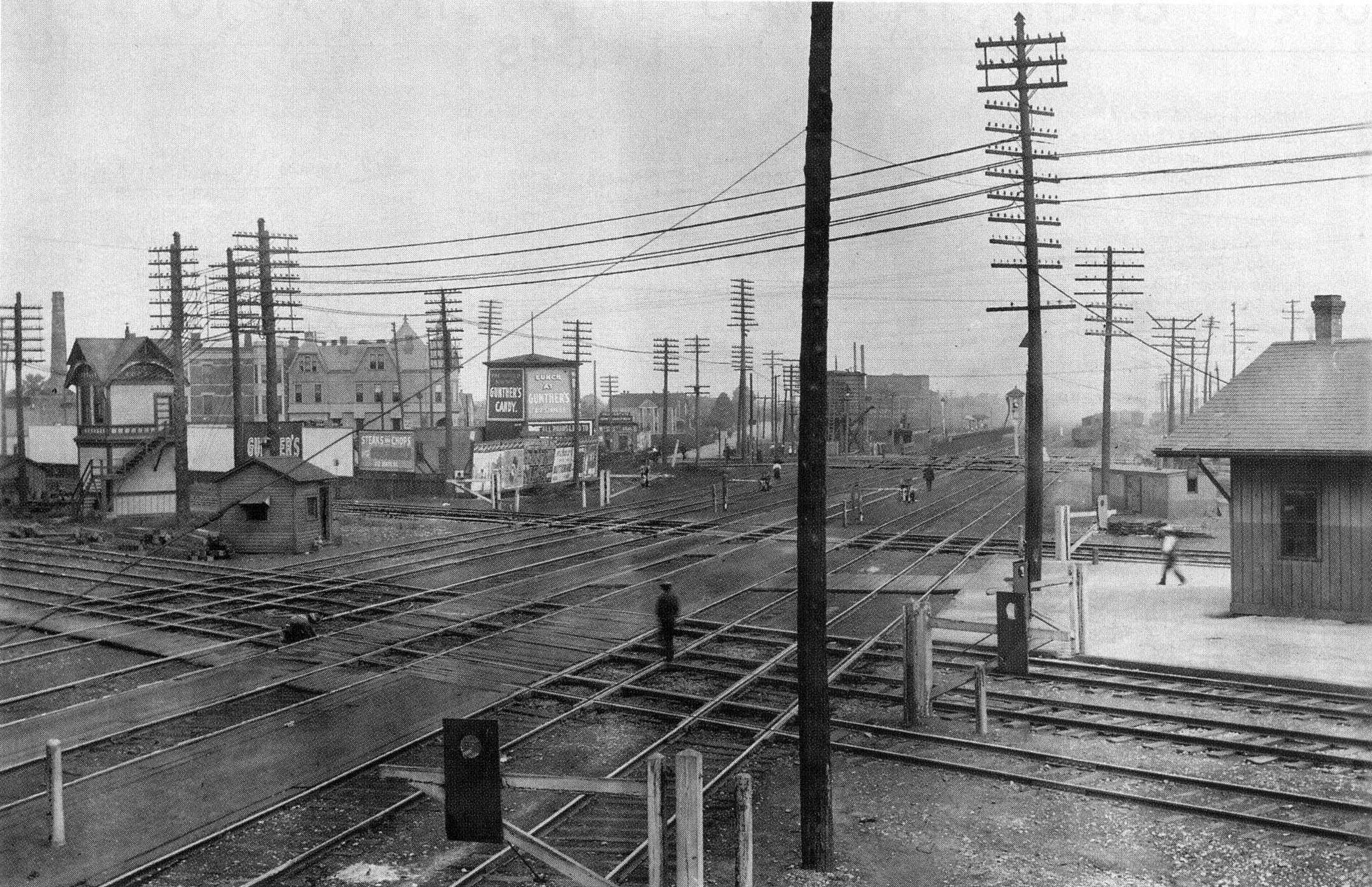 Photo of Grand Crossing in Chicago,Illinois, from the Illinois Central Railroad. This is looking north along the six-track (two suburban, two intercity passenger, two freight) Illinois Central Railroad, with the Pennsylvania Railroad's Pittsburgh, Fort Wayne and Chicago Railway and New York Central Railroad's Lake Shore and Michigan Southern Railway crossing (not sure why there are three sets of diamonds).